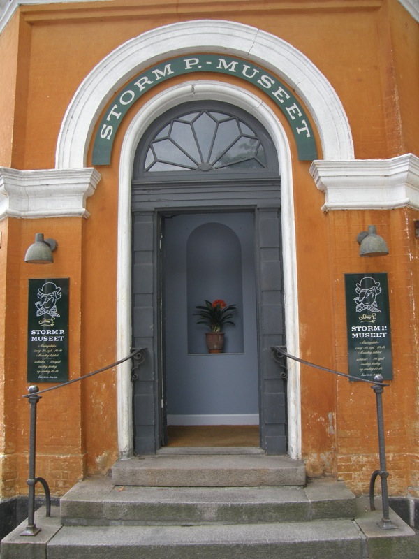 The entrance to the Storm P Museum in Copenhagenm Denmark. It is dedicated to the life and oeuvre of Robert Storm Petersen and is located on the corner of Frederiksberg Runddel and Pile Allë